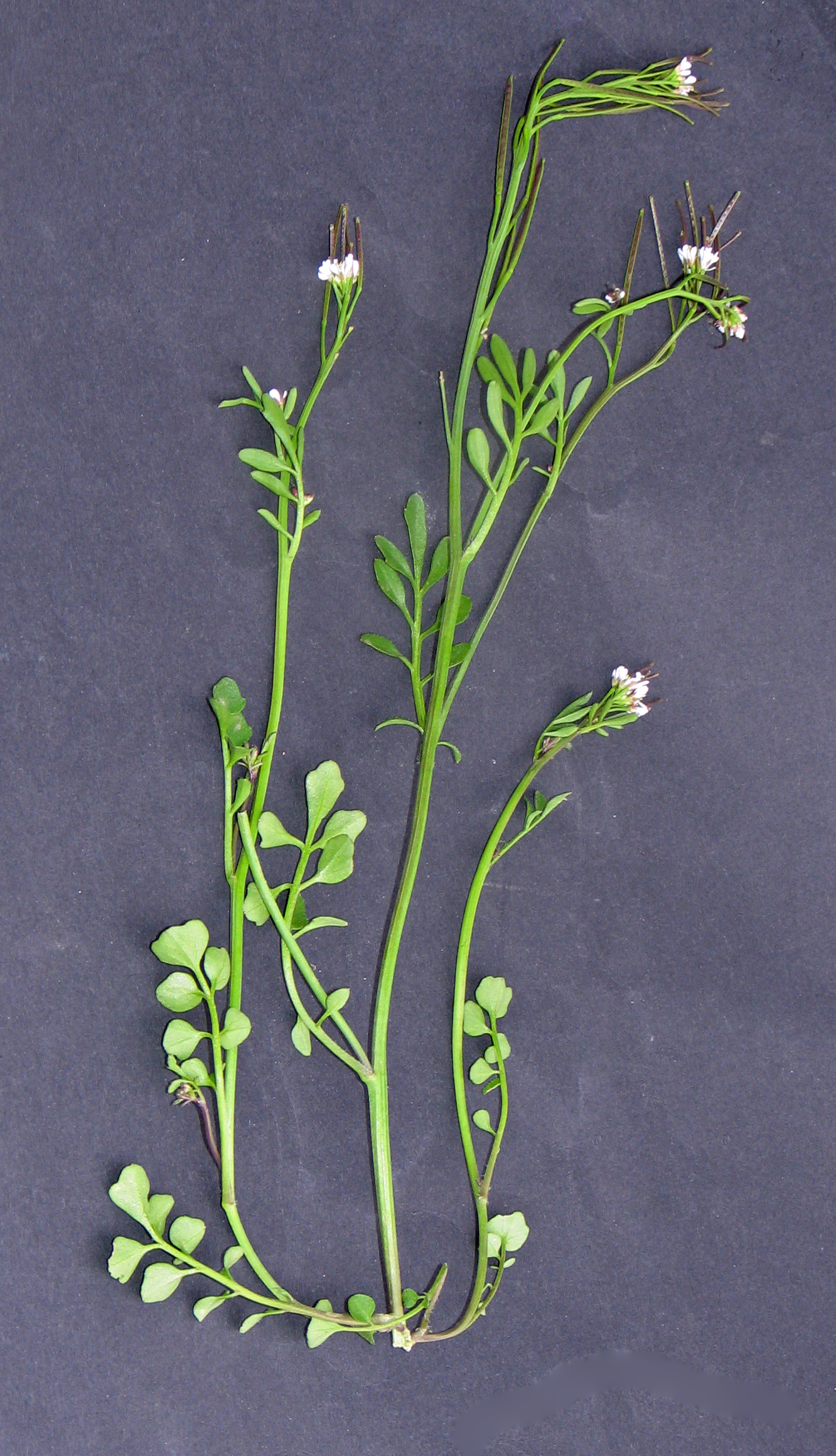 Cardamine hirsuta, Austria, Styria, Sausal